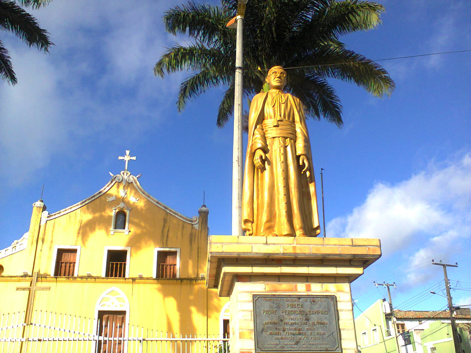 Igreja Matriz e Estátua do Padre Perdigão Sampaio.